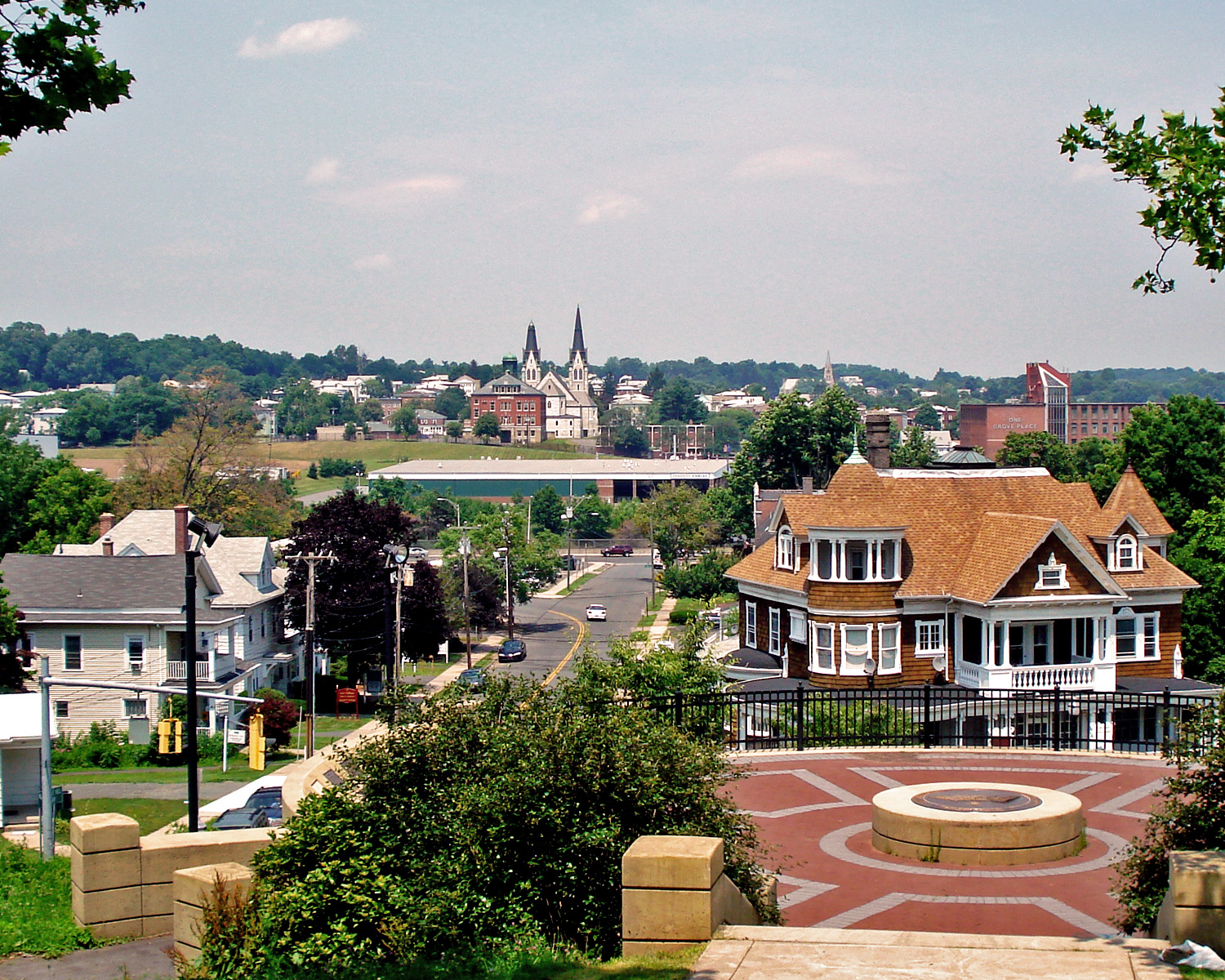 Looking north from Walnut Hill Park, New Britain, Conn.